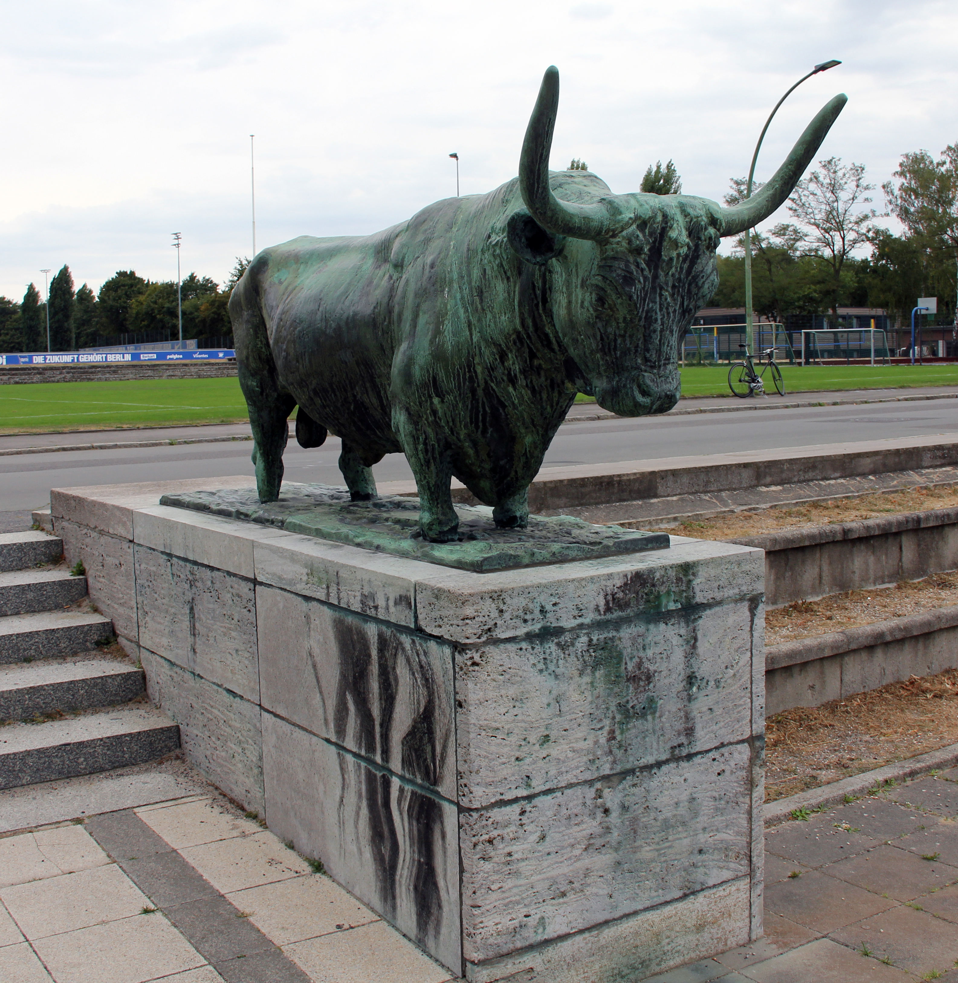 Sculpture, "Stier und Kuh" by Adolf Strübe, 1936, Jahnplatz, Berlin-Westend, Germany